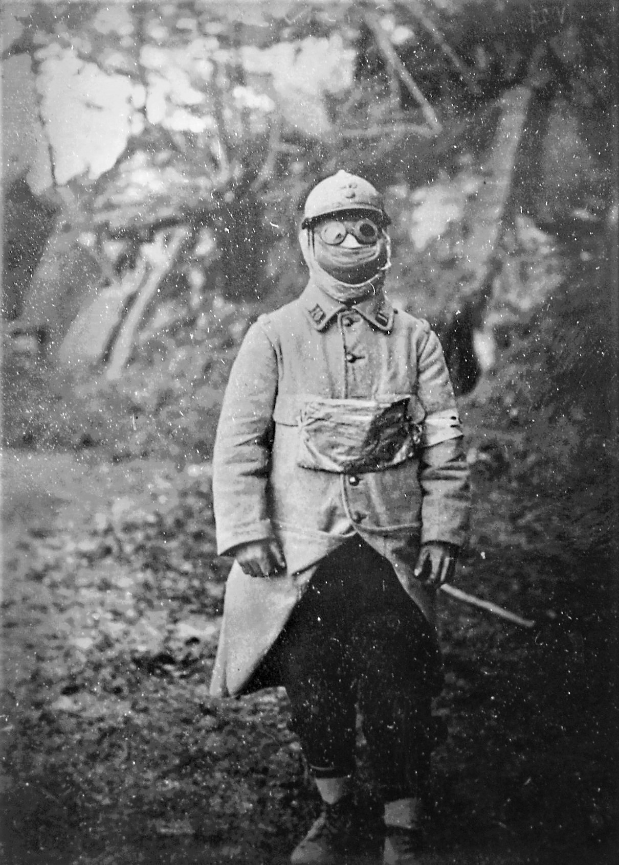 A French soldier with an early type of gas mask - World War I (1914-1918)